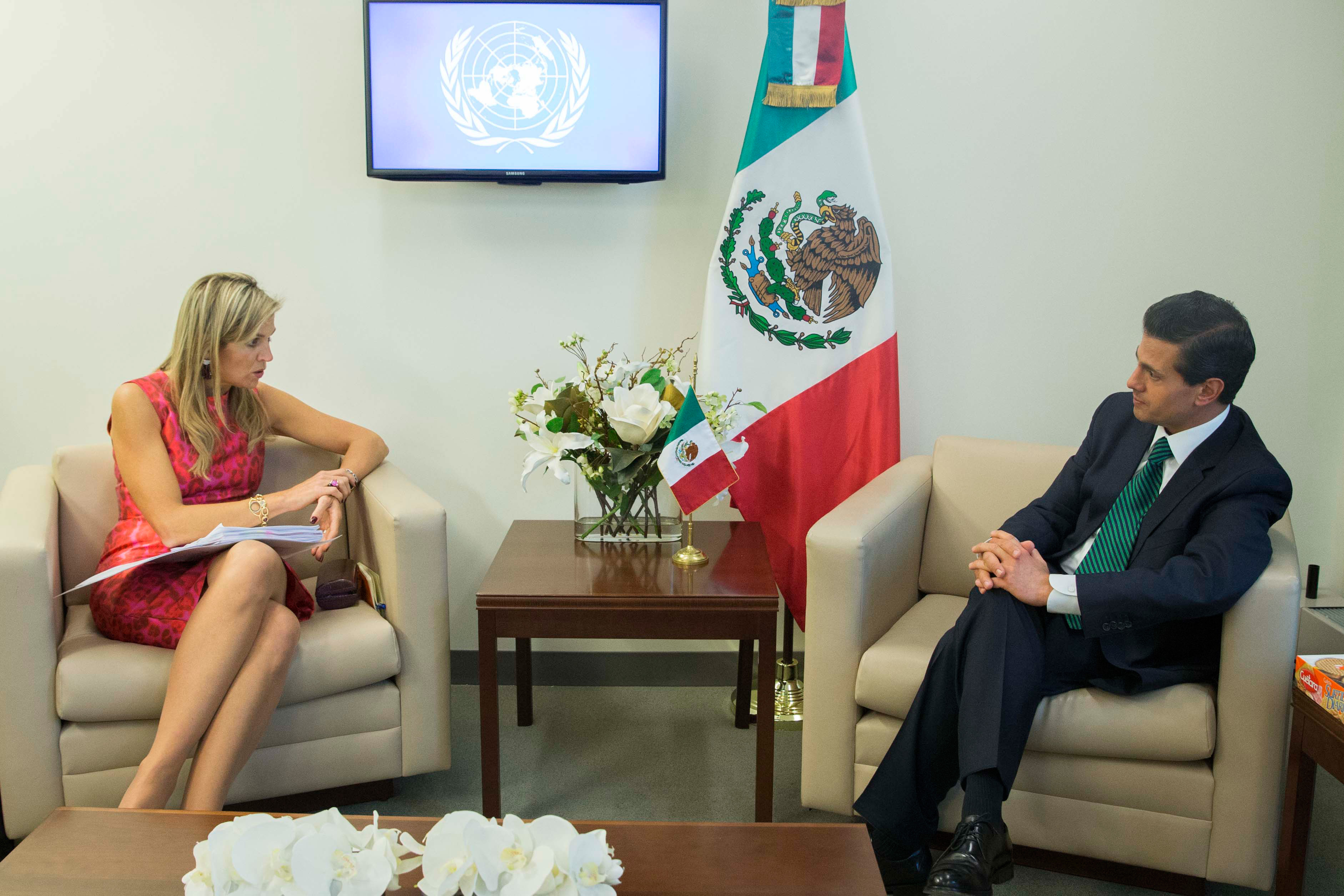 Reunión bilateral con S.M. la Reina Máxima de los Países Bajos. Nueva York. 27 de septiembre de 2015.